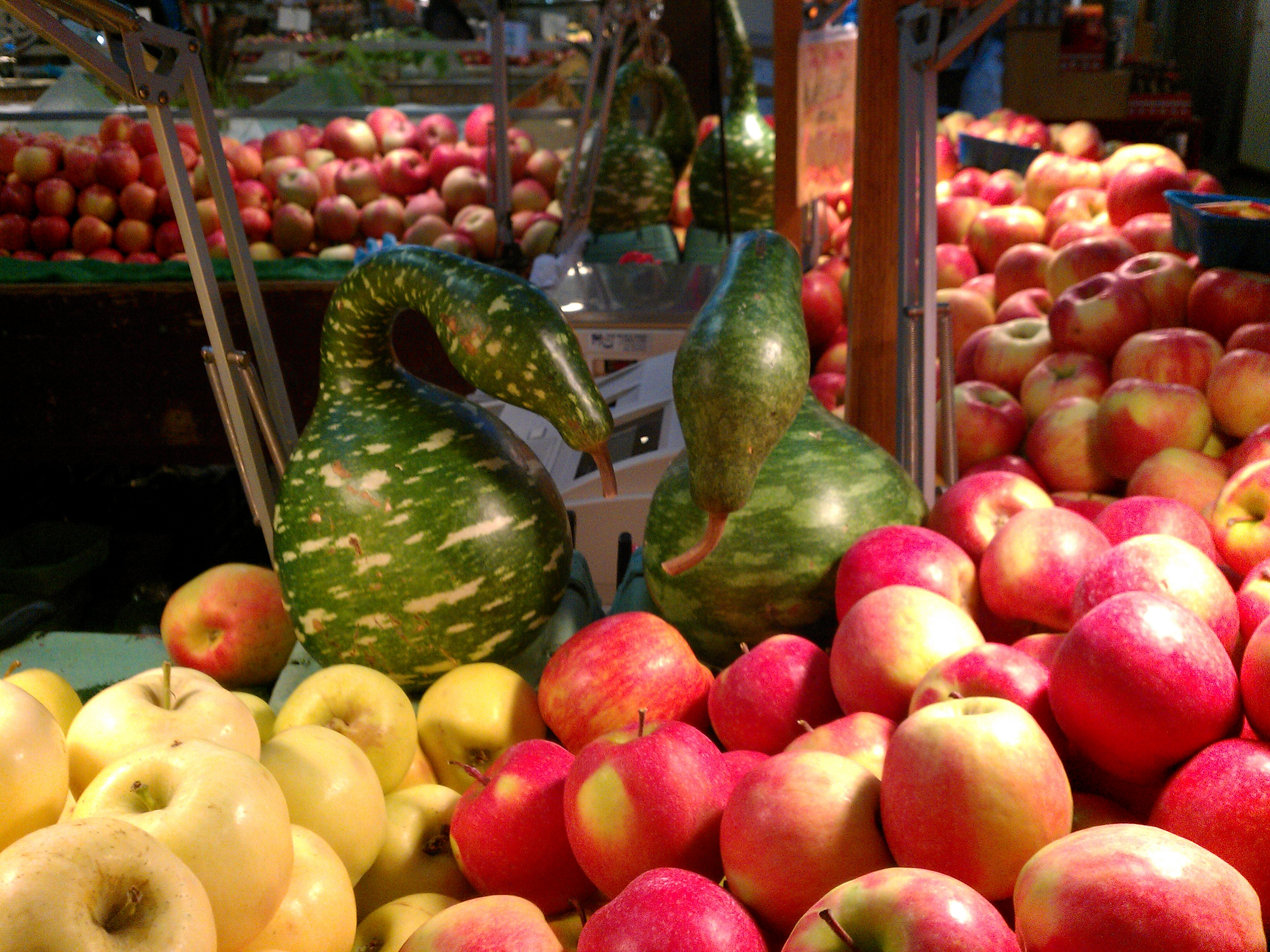 Lagenaria siceraria Squash "geese" at Granville Island. The woman at the fruit stand thought they hadn't naturally grown to be geese, but she wasn't sure. I have to say, this mobile phone camera has its moments. I don't think my real camera would have done this any better.